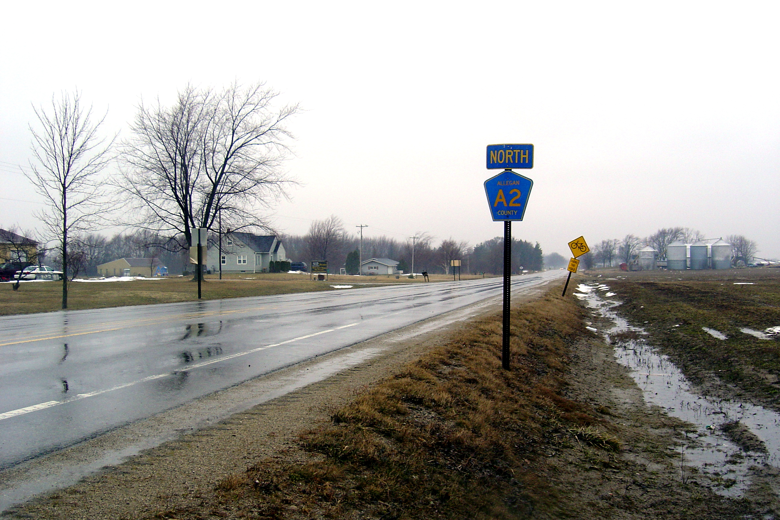 Allegan County Highway A2 South of Holland